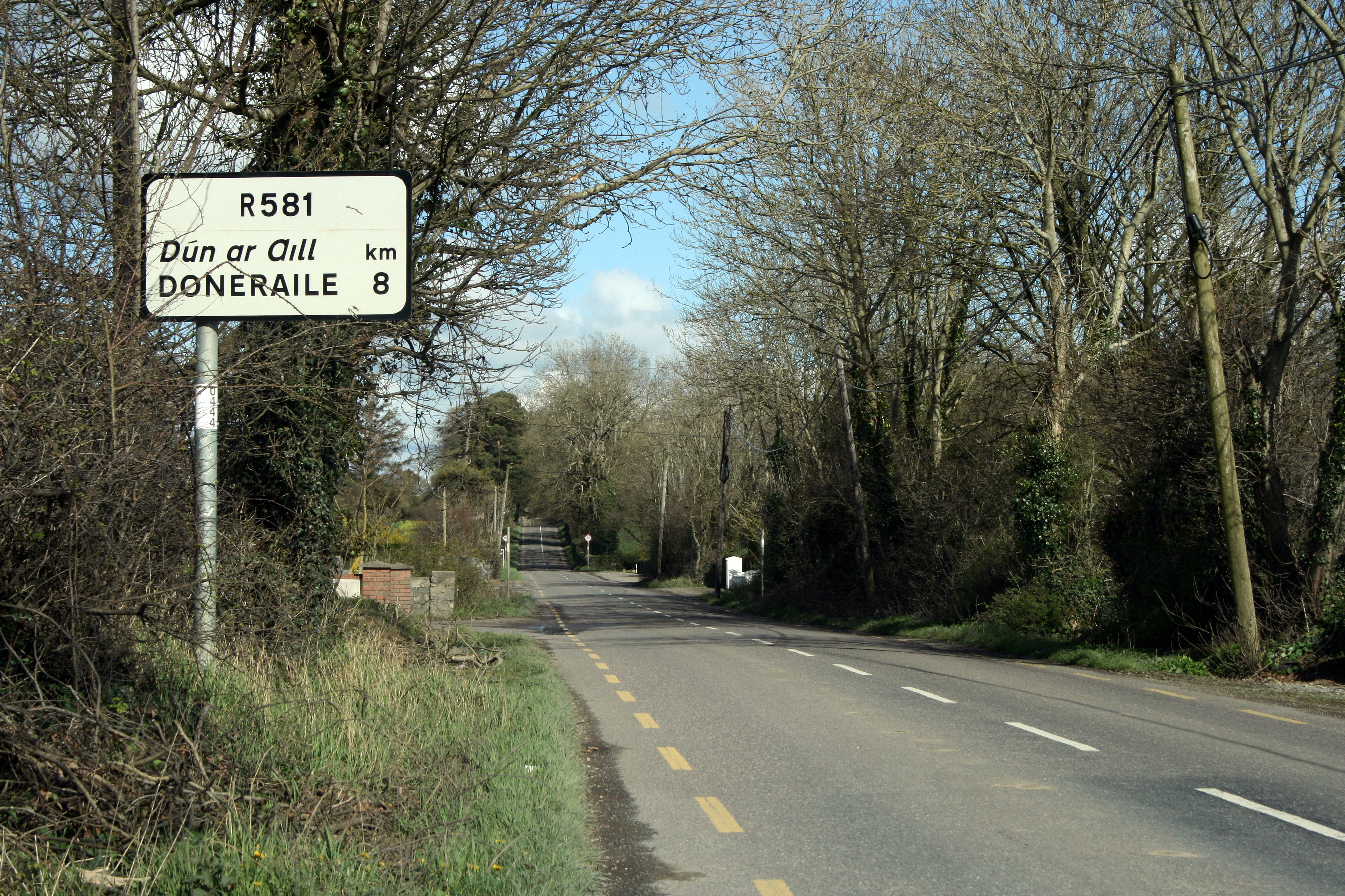 The R581 north of Mallow in North Cork